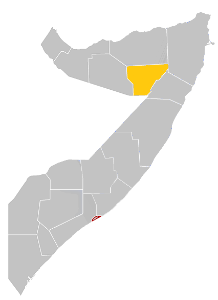 Sool province in Somalia